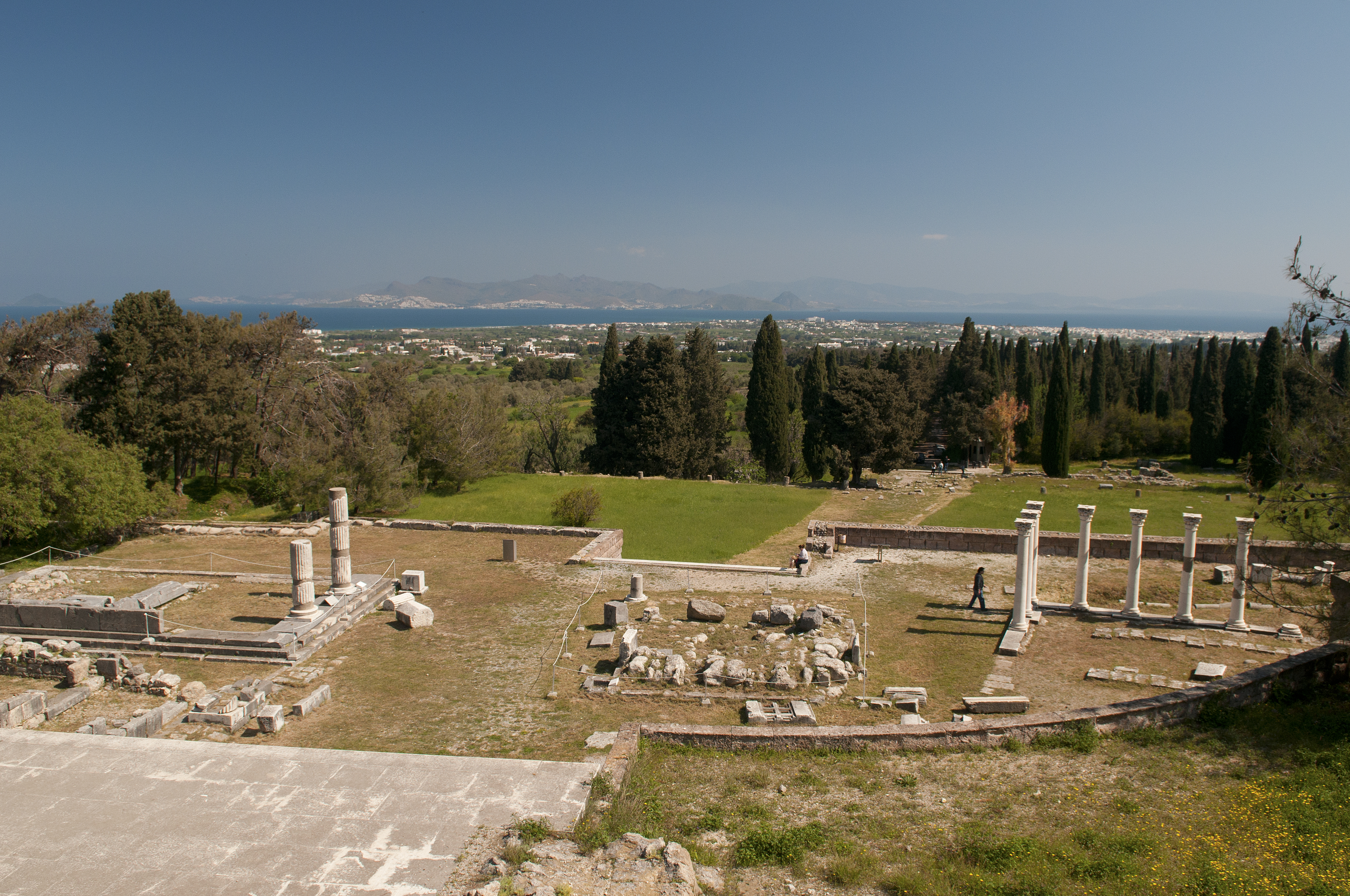 Asklepion, Kos, Greece